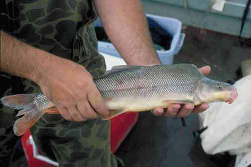 Xyrauchen texanus USFWS photo on USGS webpage